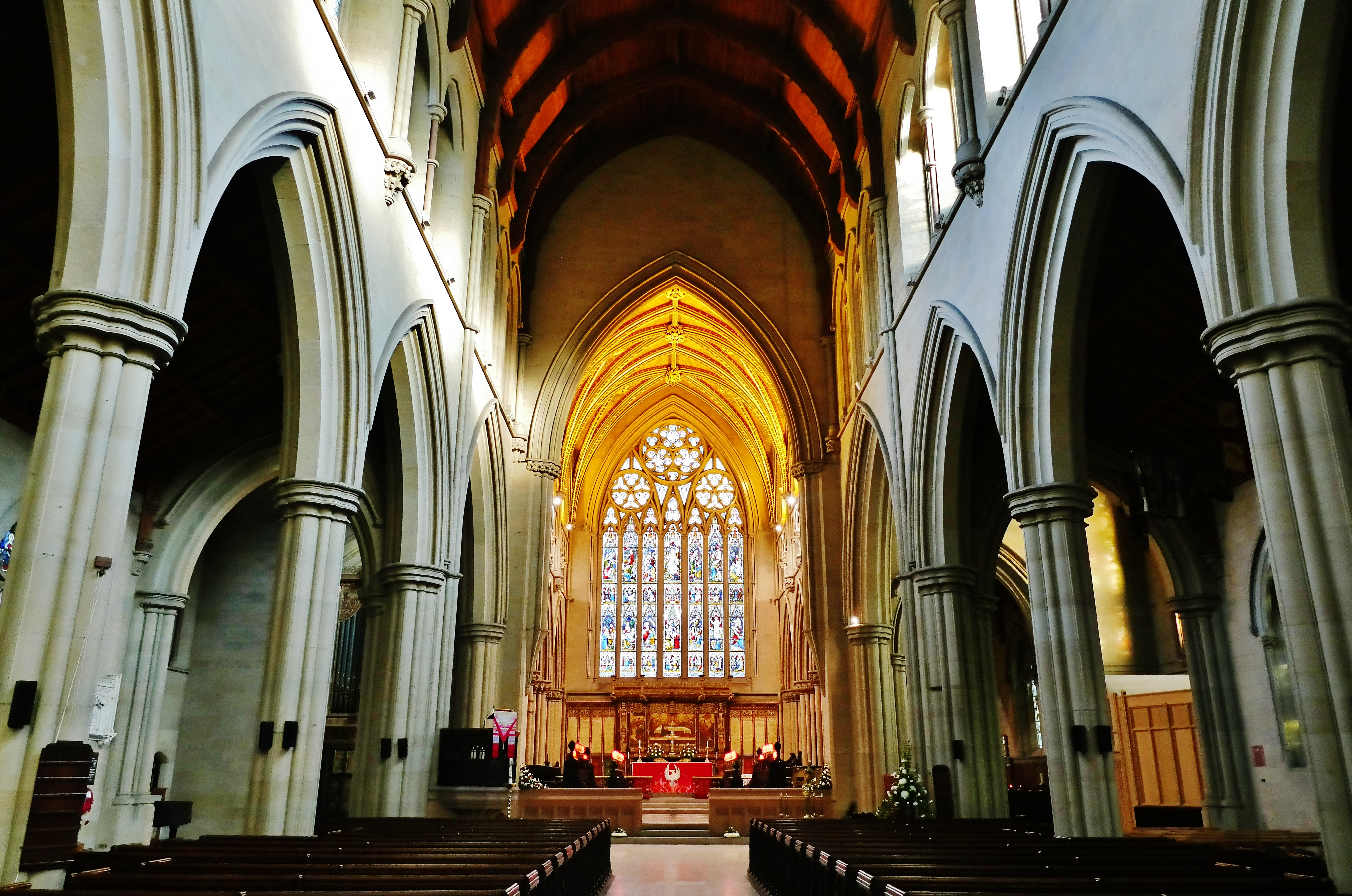 Bolton Parish Church Interior